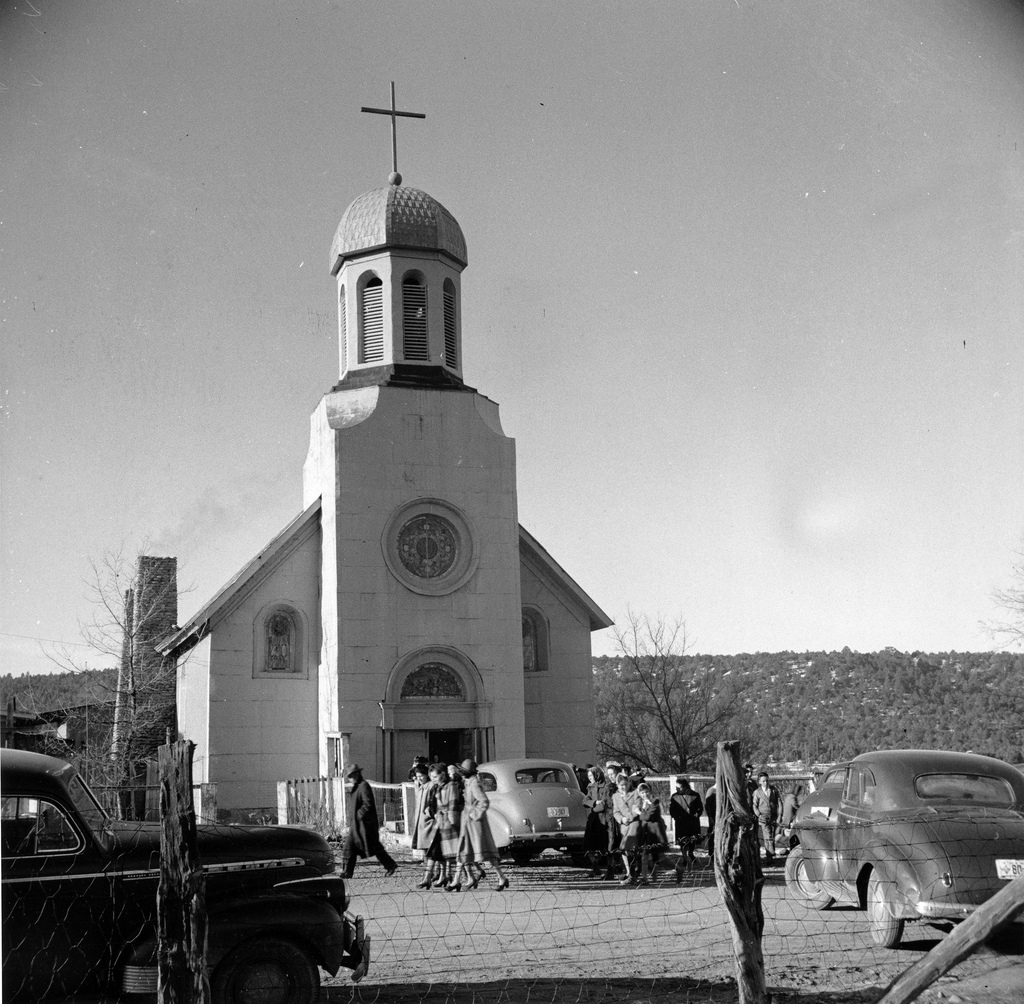 Leaving church on Sunday, Peñasco, New Mexico